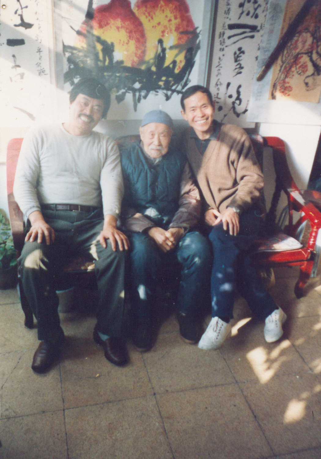 Picture of Shifu Yu Decai